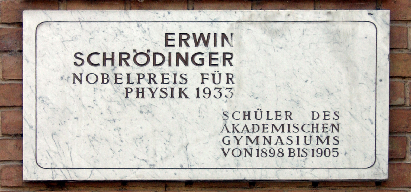 Akademisches Gymnasium, Vienna